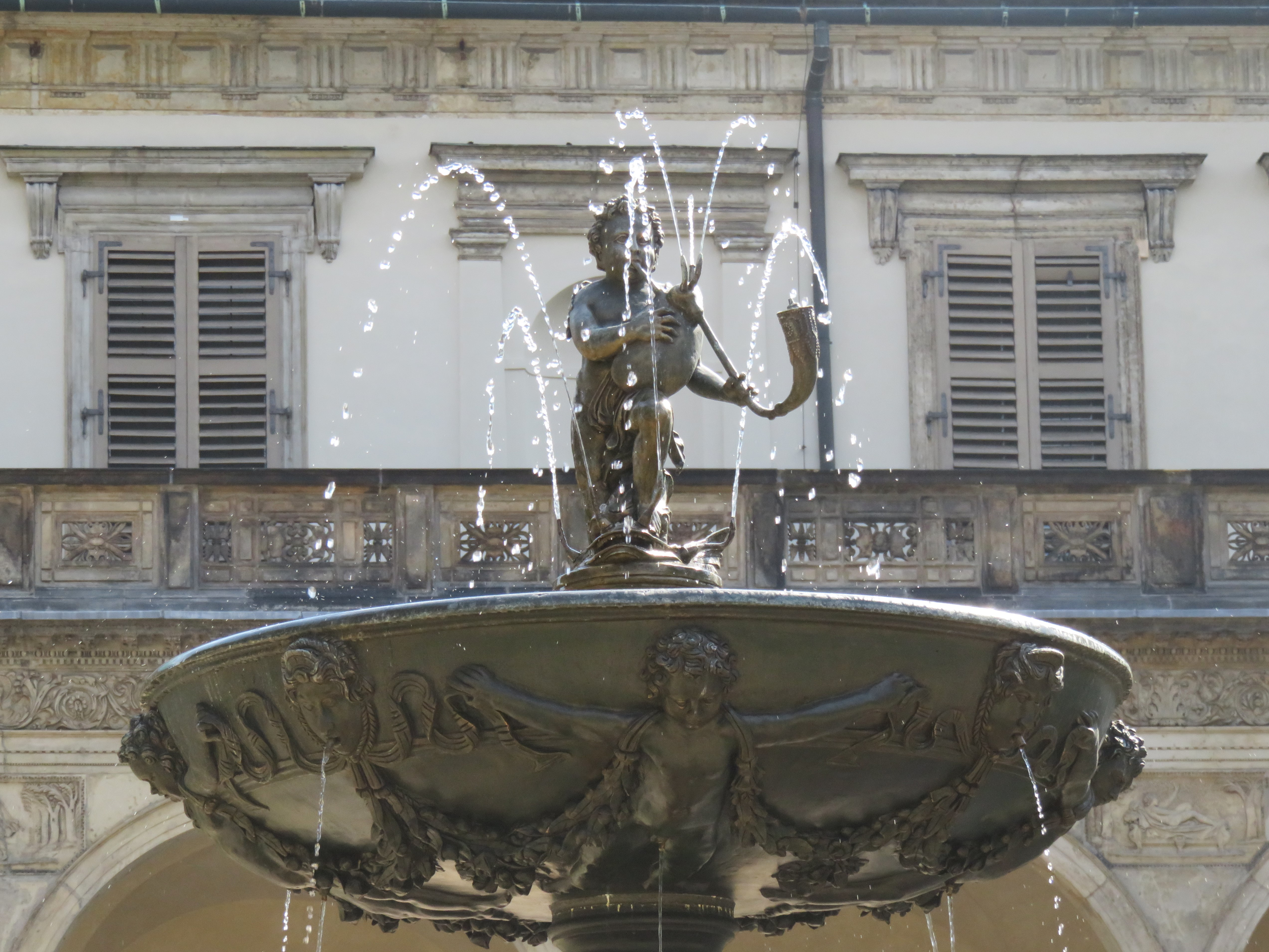 Singing fountain in the Prague Royal Garden. The Renaissance Royal Summer Palace is in the background.